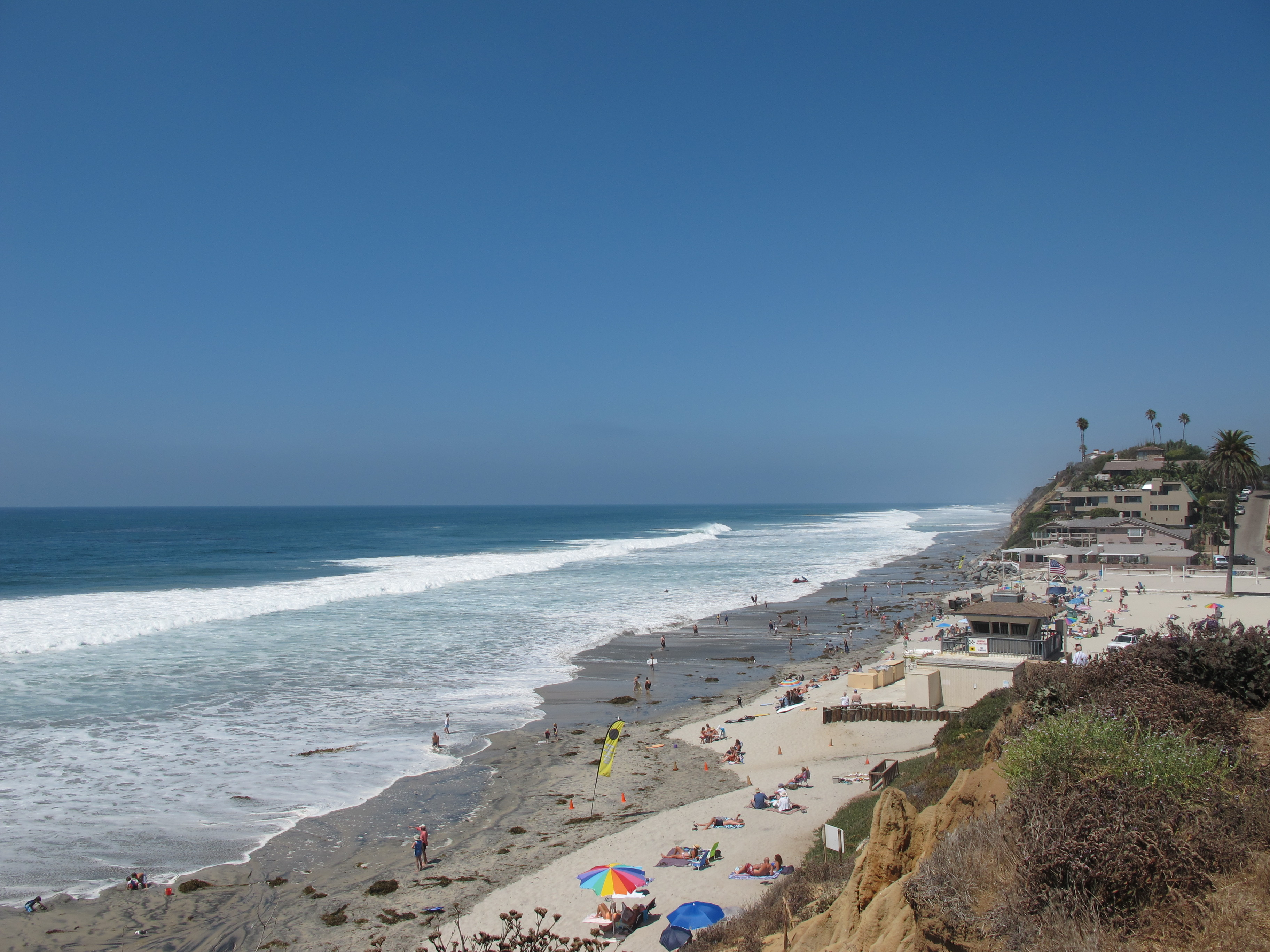 A view of Moonlight Beach, San Diego North County, California, taken from the south